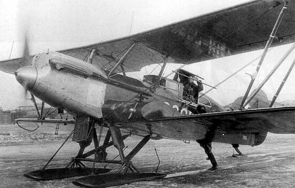 Soviet ARK-5 aircraft, an arctic exploration version of the Polikarpov R-5 light bomber.